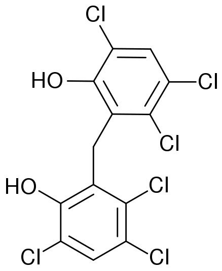 Hexachlorophene